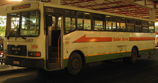 A Golden Arrow bus, MAN chassis.